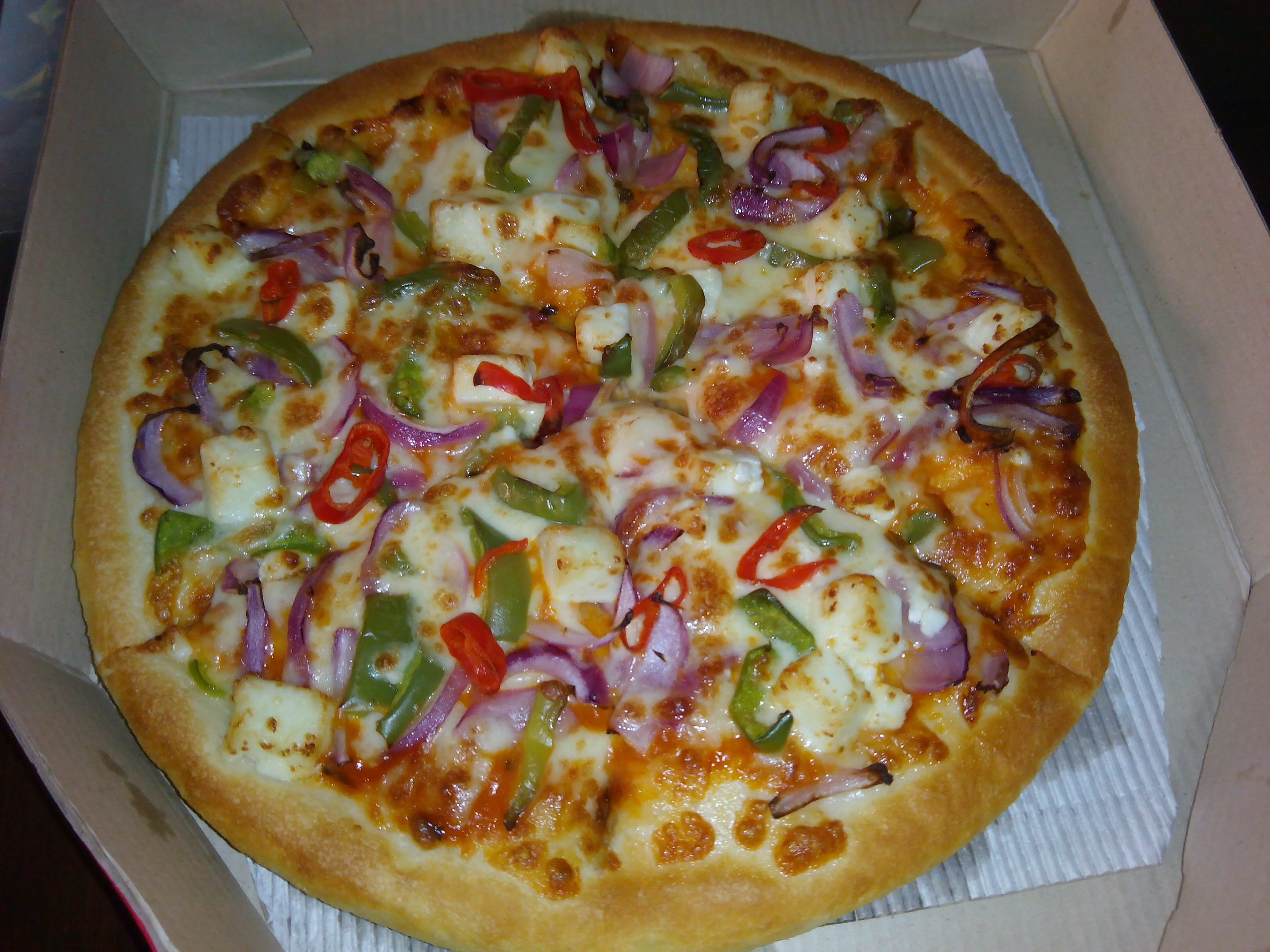 A Malai Paneer Pizza from India.